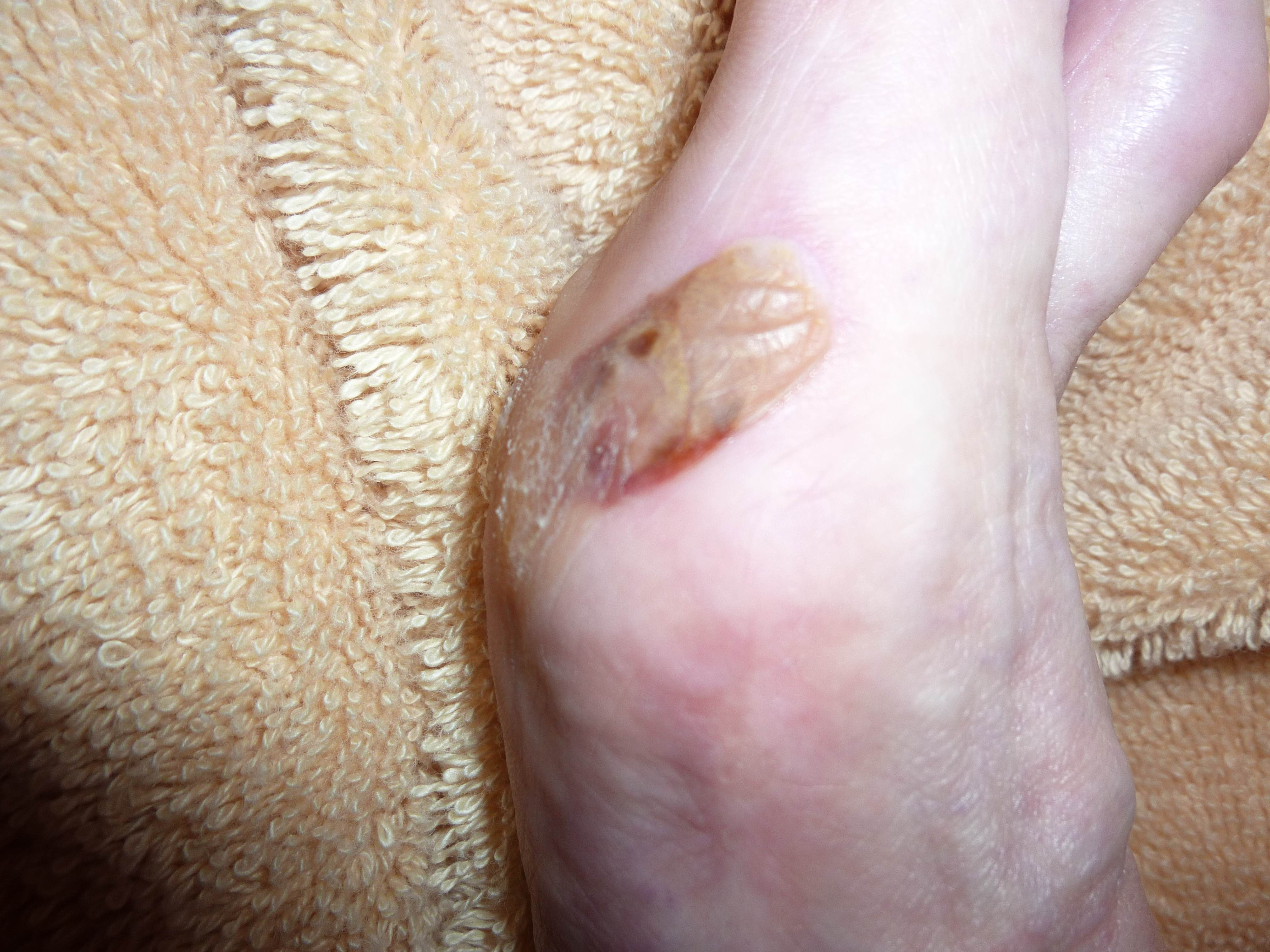 Blister on foot three days after treatment with tincture of benzoin. It does not and never did hurt (with a bandage, this person walked 10 miles (16 km) that day).